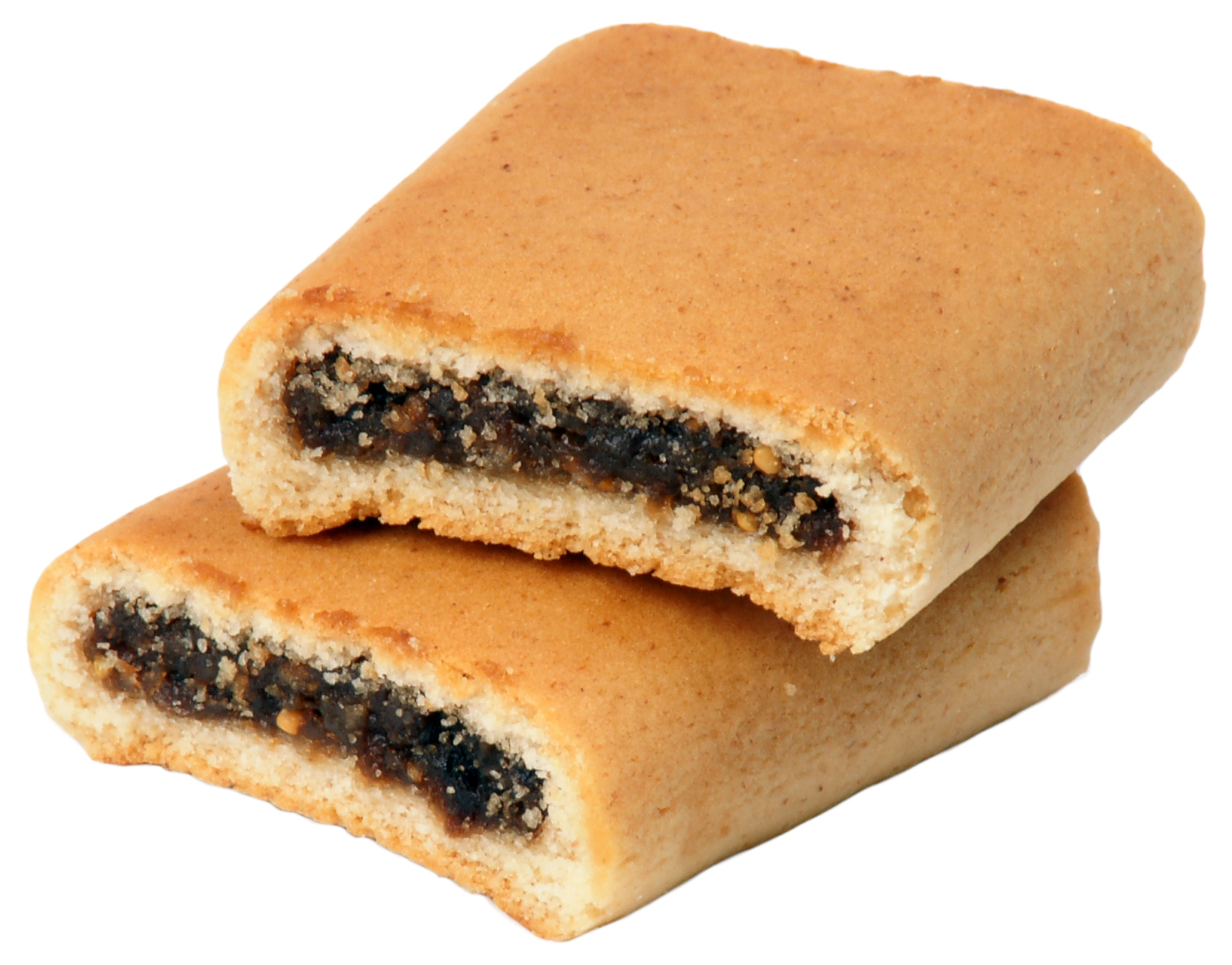 Two Nabisco-brand Fig Newtons stacked on each other.